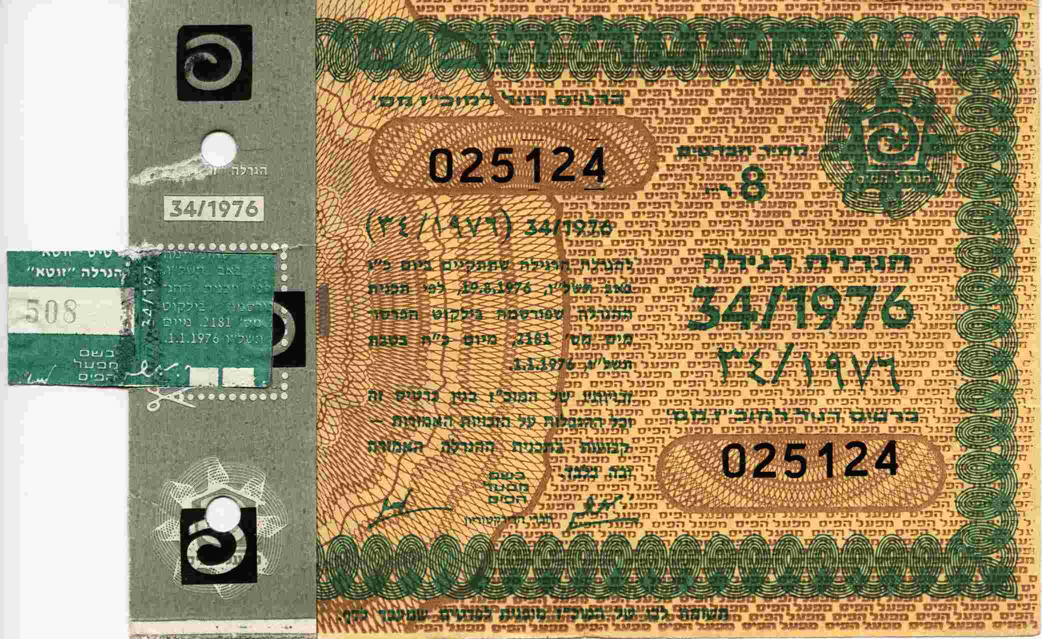 Mifal HaPayis Zuta lottery ticket (Israel, 1976)